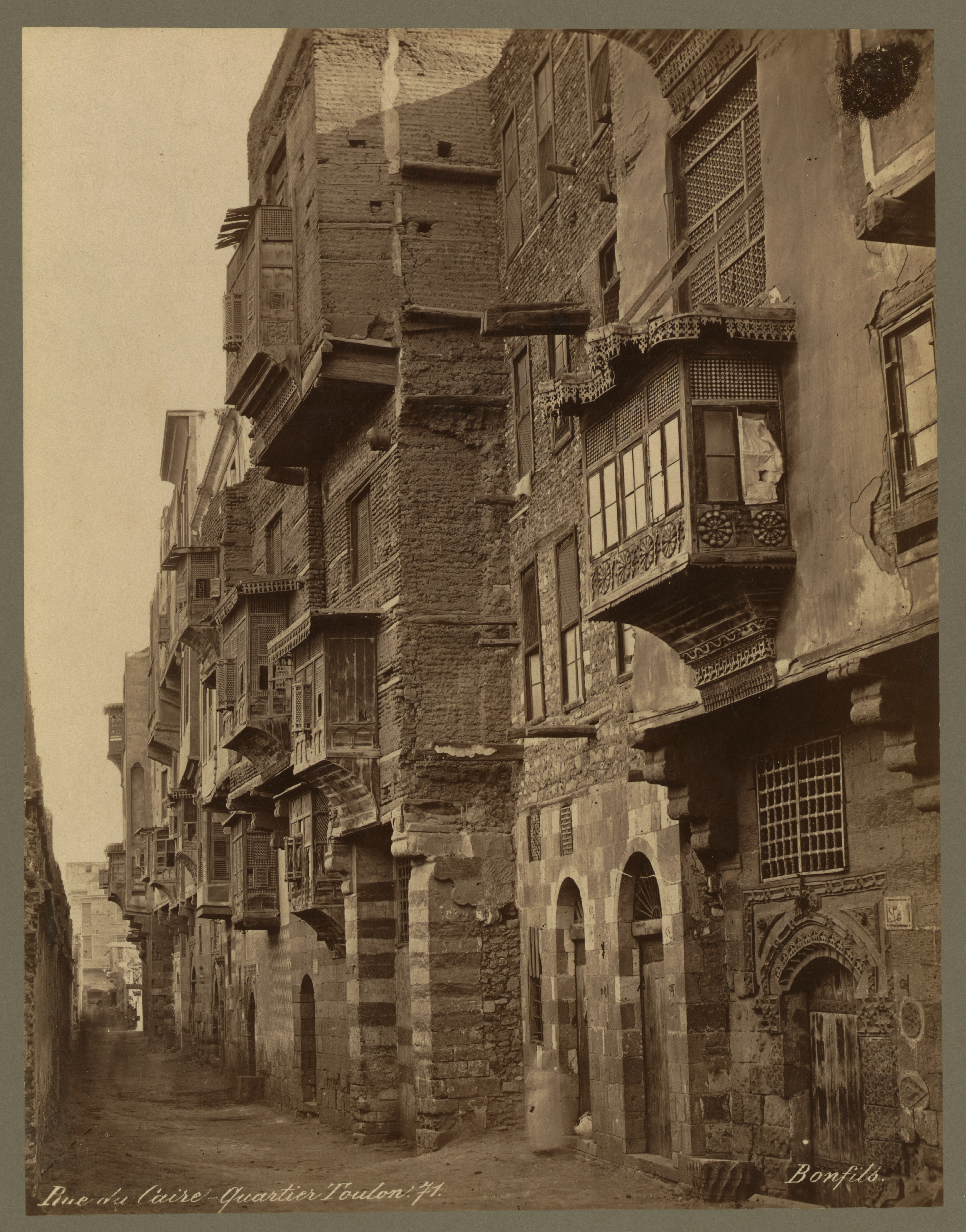 Title: Rue du Caire. Quartier Toulon / Bonfils. Abstract/medium: 1 photographic print : albumen.